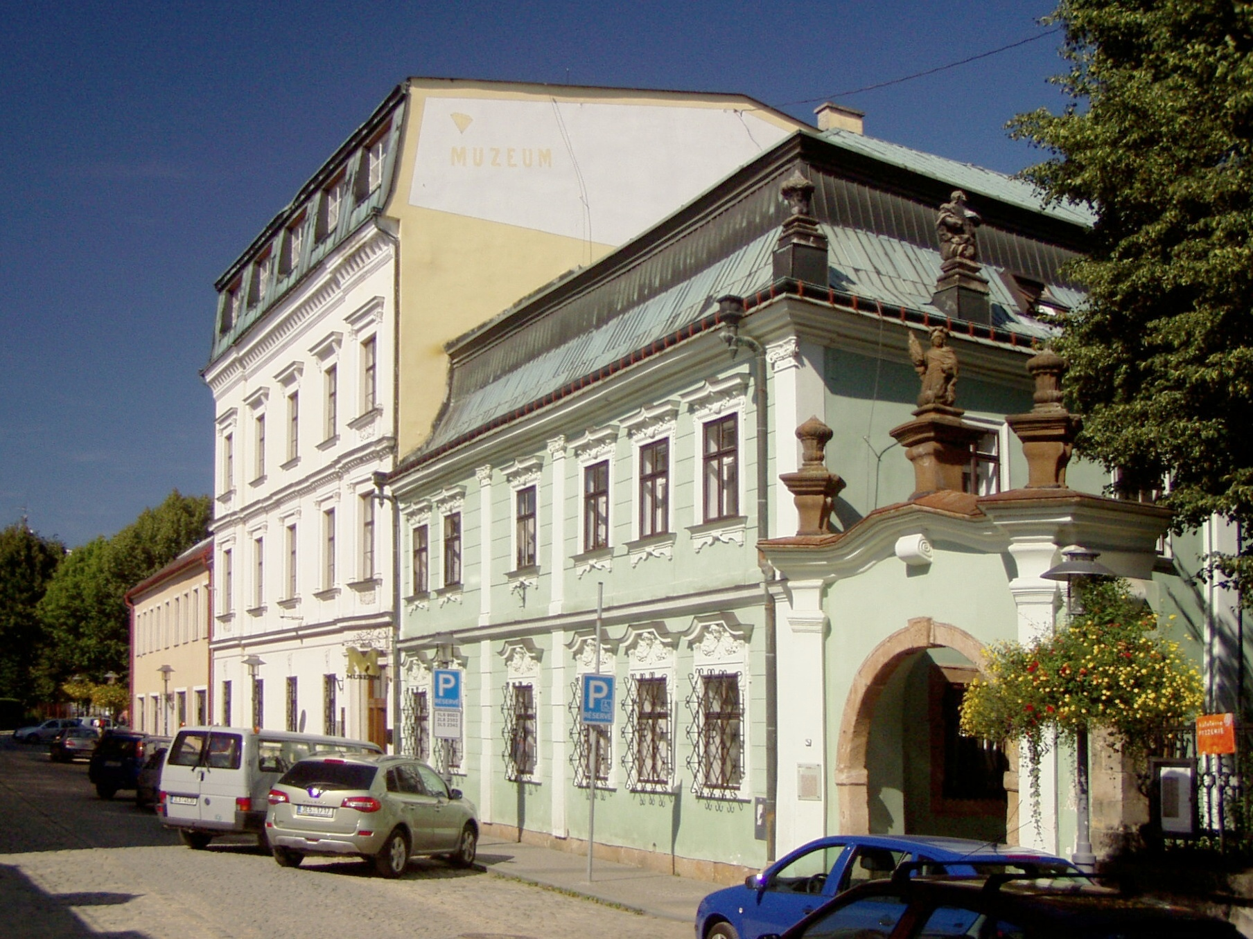 Museum in Turnov